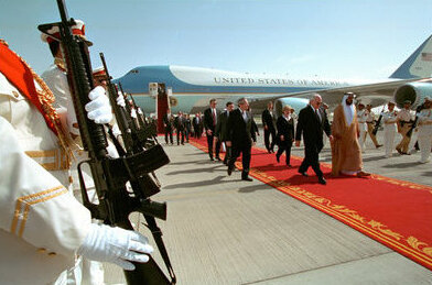 Greeted by Crown Prince Shaikh Khalifa of the United Arab Emirates, Vice President Dick Cheney participates in an arrival ceremony in Abu Dhabi March 16 2002.